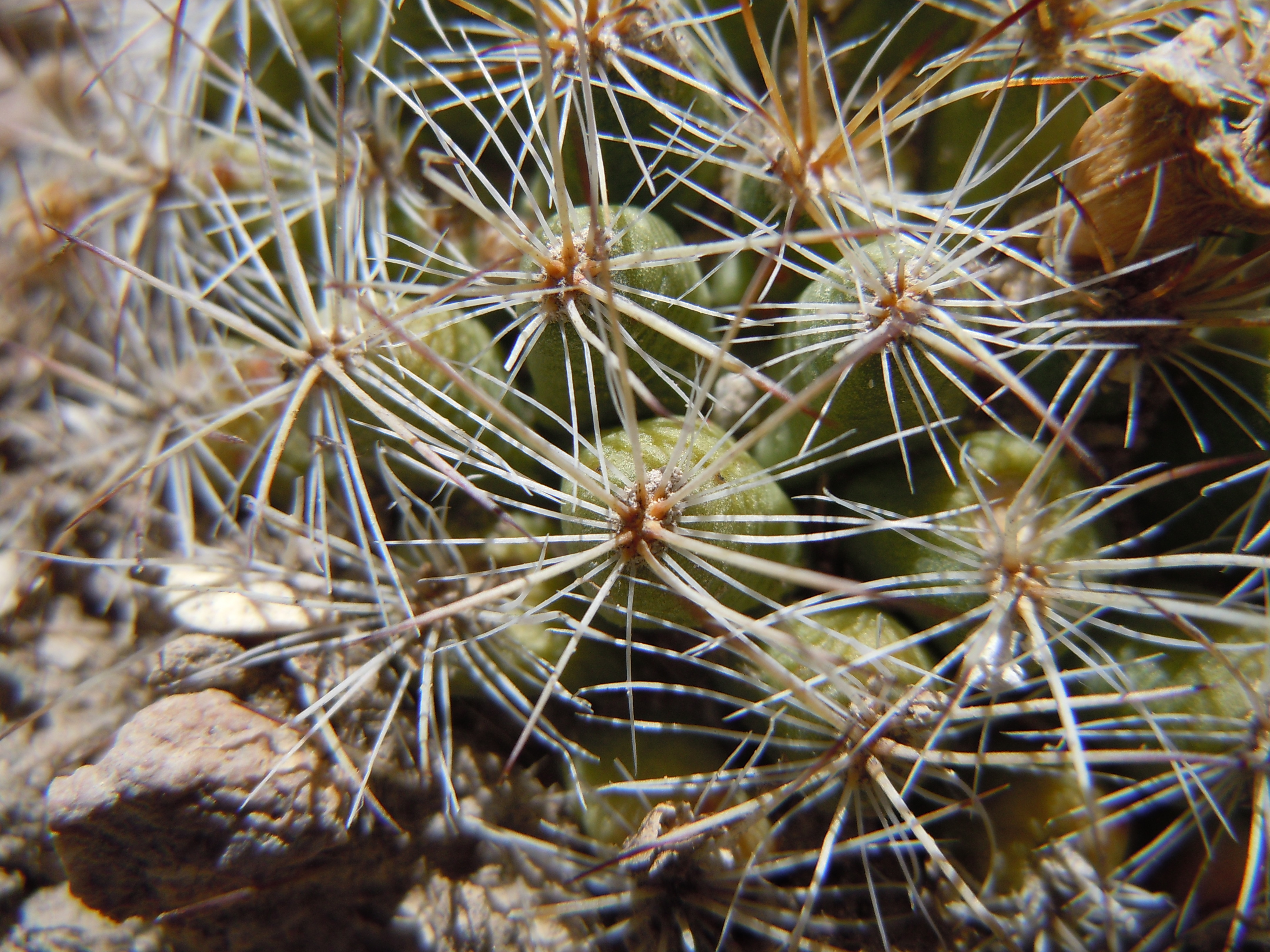 The radiating white spines surrounding the more central erect and reddish spines is characteristic of the spine cluster of Coryphantha vivipara. Both coryphanthas are sympatric on the south end of the Lemhi Range.